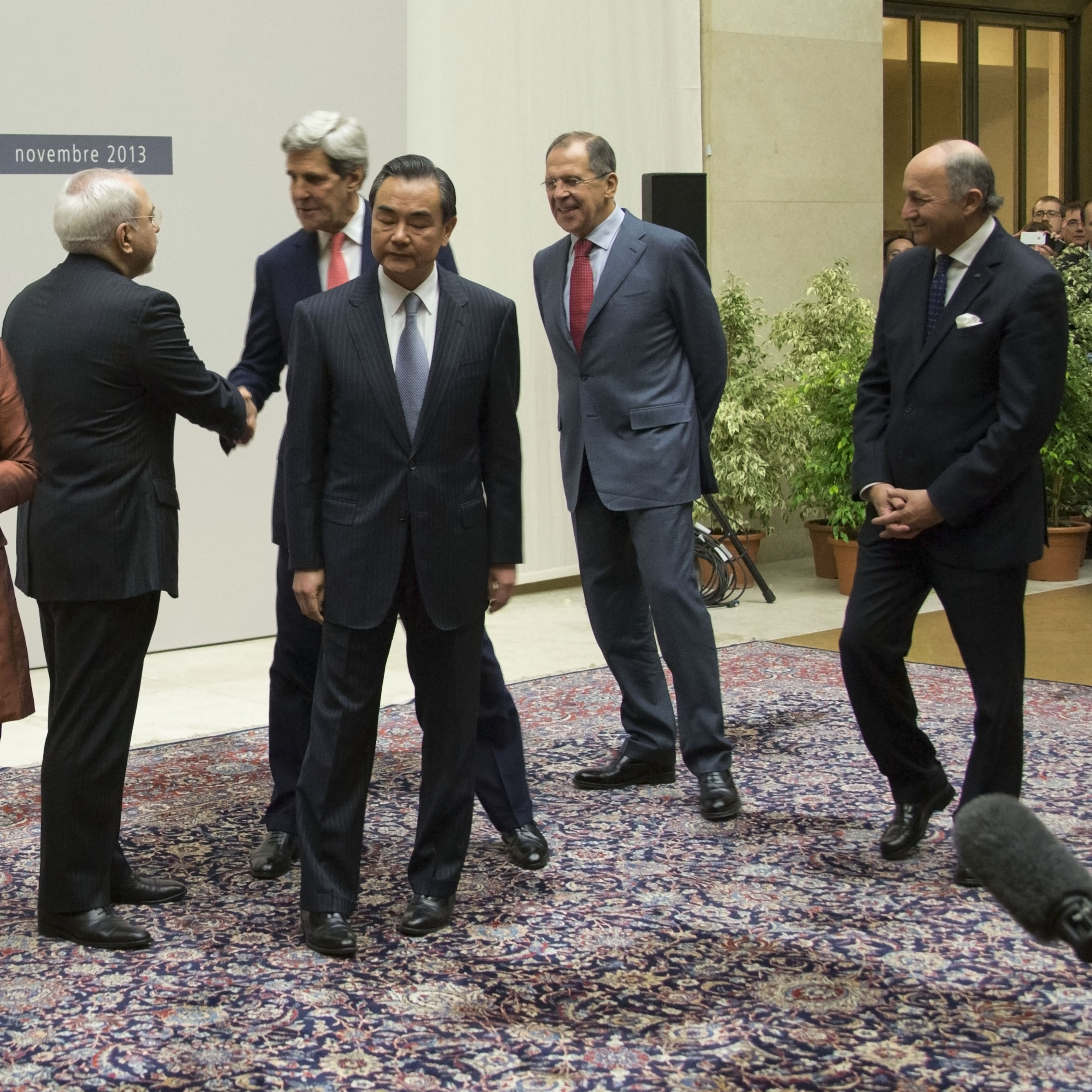 U.S. Secretary of State John Kerry shakes hands with Iranian Foreign Minister Javad Zarif after the P5+1 and Iran concluded negotiations about Iran's nuclear capabilities on November 24, 2013.